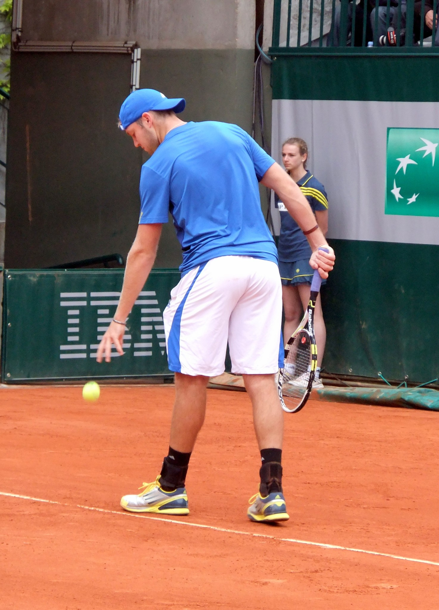 Jack Sock Roland Garros 2013 2nd round match vs Tommy Hass - serving